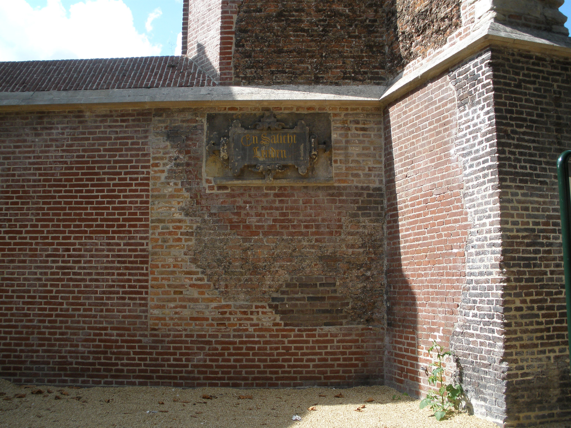 Remains of the Vrouwekerk in Leiden, the Netherlands. The inscription En Salicht Leiden ("A blessed Leiden") was originally in Leiden's town hall, which was destroyed by fire in 1922